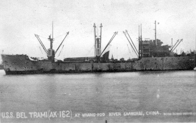 USS Beltram (AK-162) at anchor, on the Whangpoo River, off Shanghai, China, circa 18 November 1945 to 26 January 1946